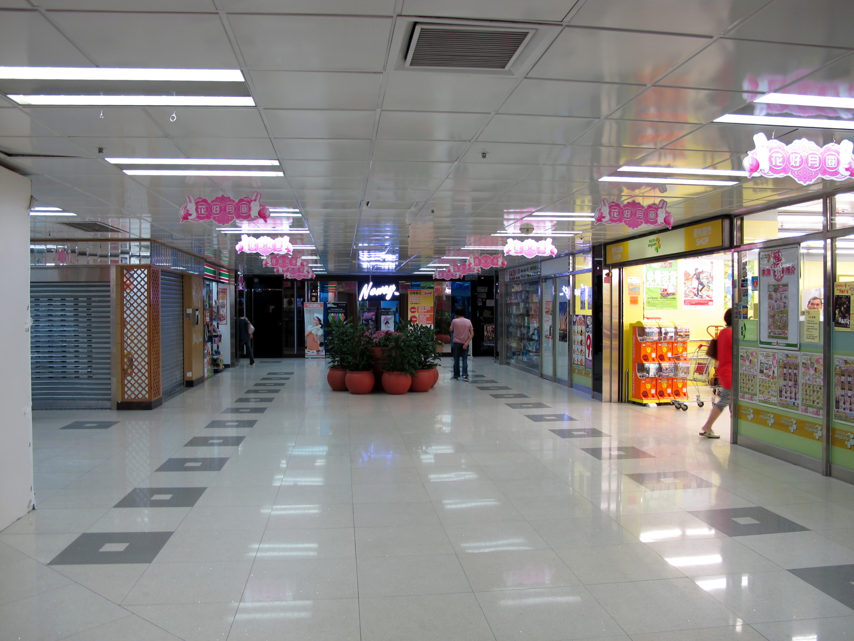 Belair Gardens Shopping Arcade